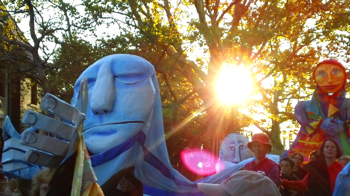 River parade